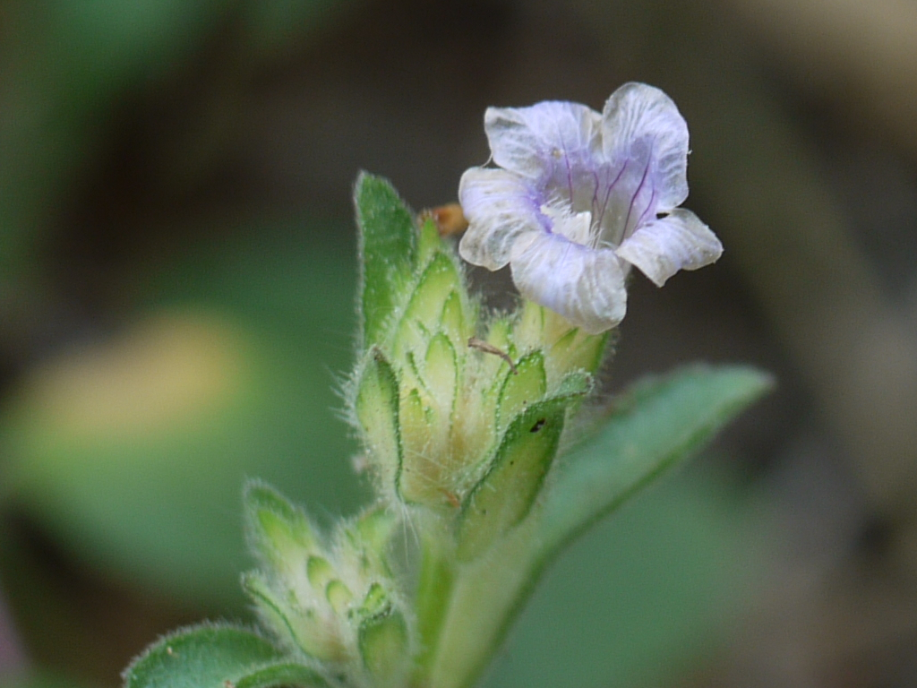 Acanthaceae (acanthus or ruellia family) » Hemigraphis crenata (Benth.) Bremek. hem-ee-GRAF-iss -- from the Greek hemi (half) and graphis (stylus, paintbrush) kre-NAY-tuh or kre-NAH-tuh -- scalloped commonly known as: scalloped hemigraphis Endemic to: peninsular India References: Flora of the Presidency of Bombay • Flora of Eastern Karnataka